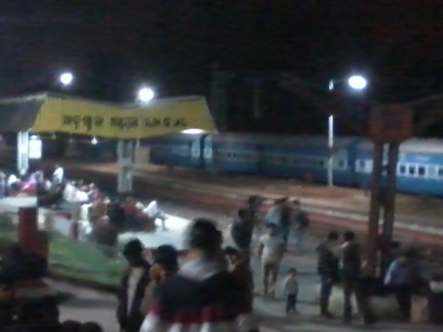 A view of stations platform